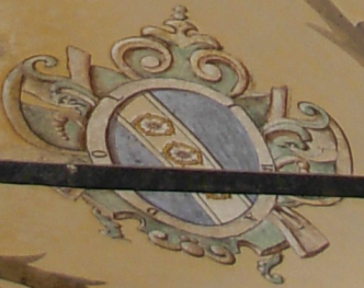 Doliwa coat of arms in Baranow-Sandomierski castle. Detail of Image:Baranów Sandomierski - castle 03.JPG full resolution, by User:Piotrus and tagged with the same “self2.GFDL.cc-by-sa-2.5,2.0,1.0” license.